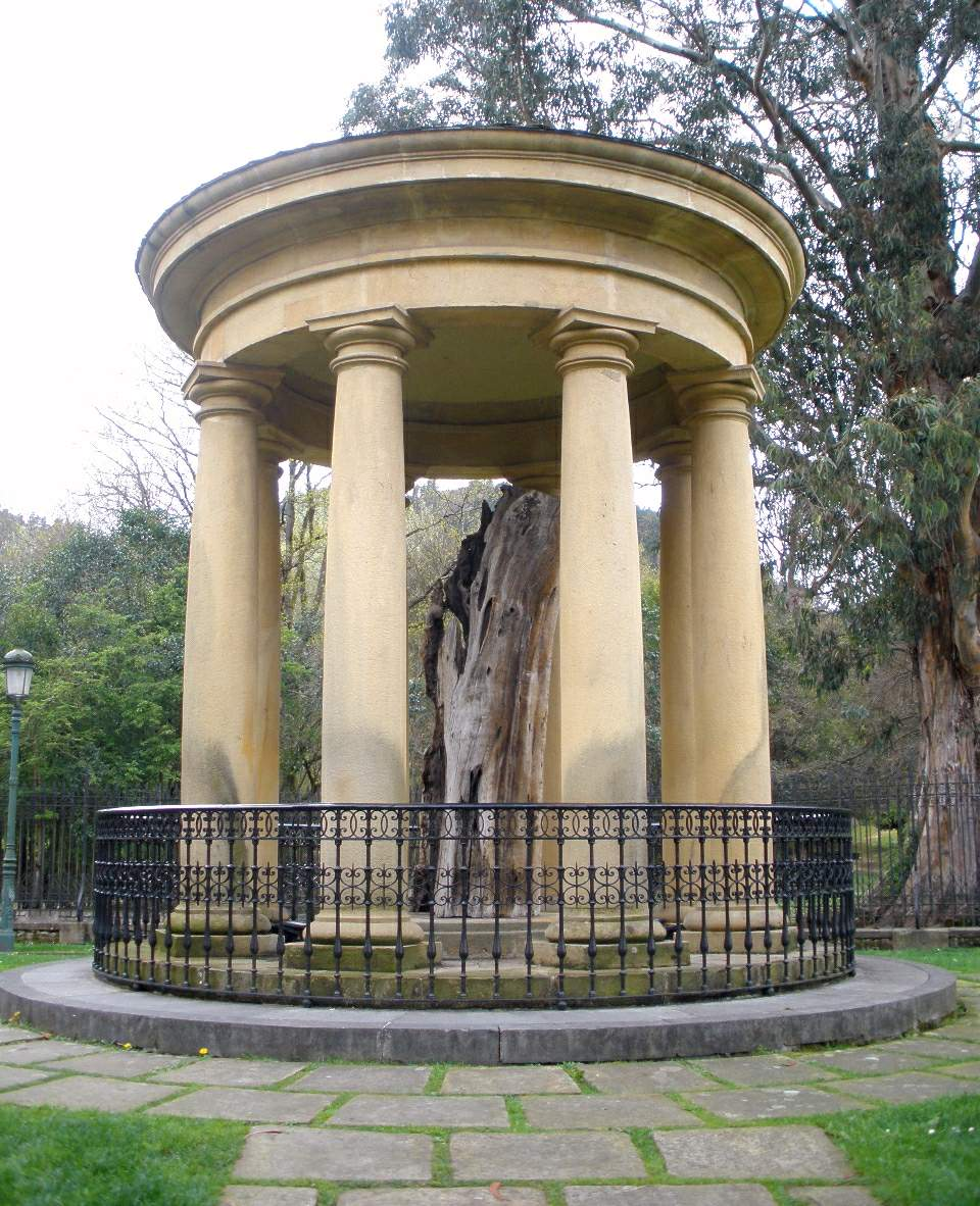 Árbol Viejo, Casa de Juntas de Gernika